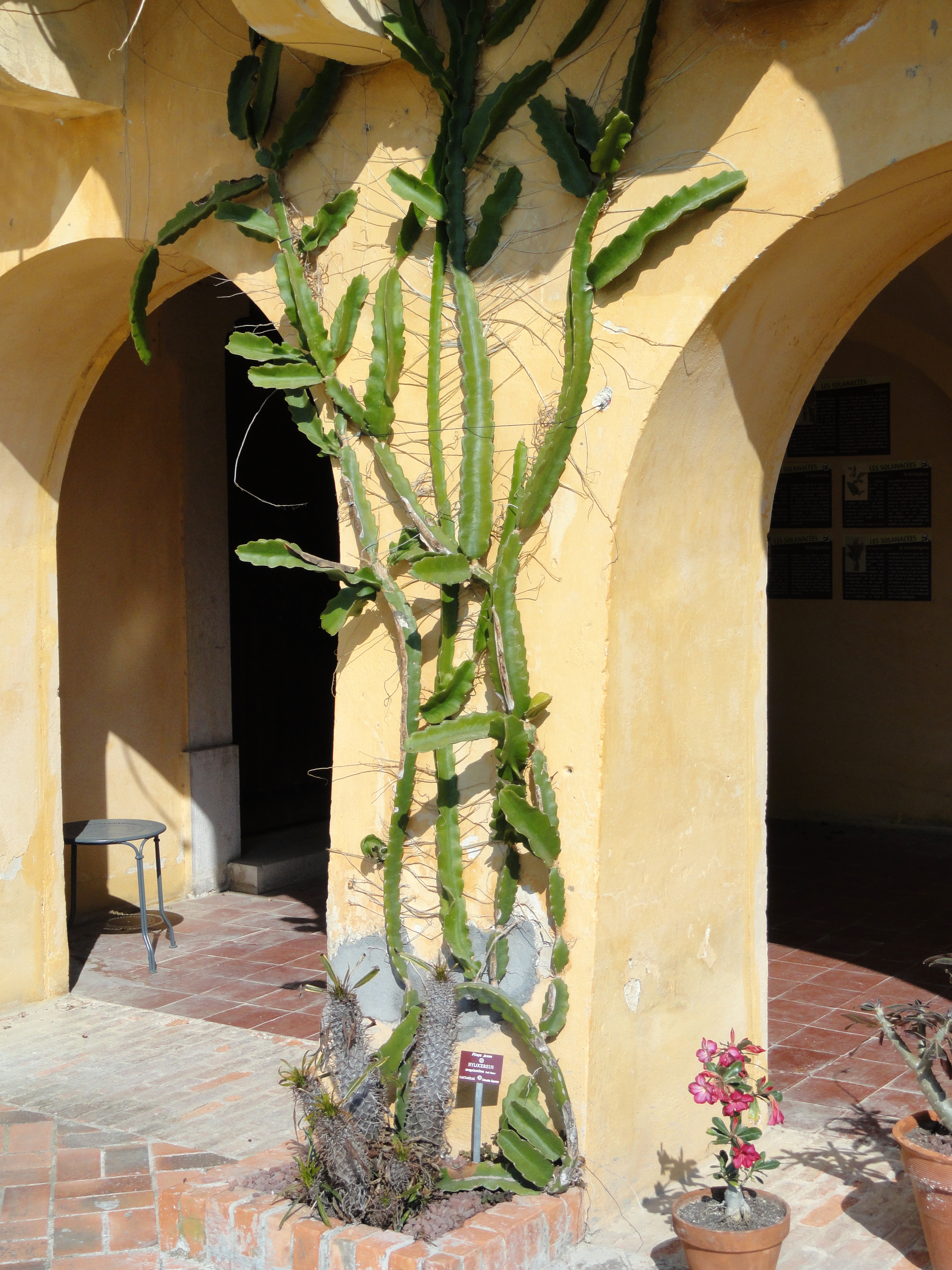 Hylocereus megalanthus specimen in the Jardin botanique du Val Rahmeh, Menton, Alpes-Maritimes, France.